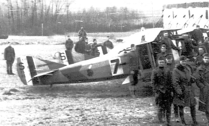 28th Aero Squadron - Foucaucourt 18 November 1918.